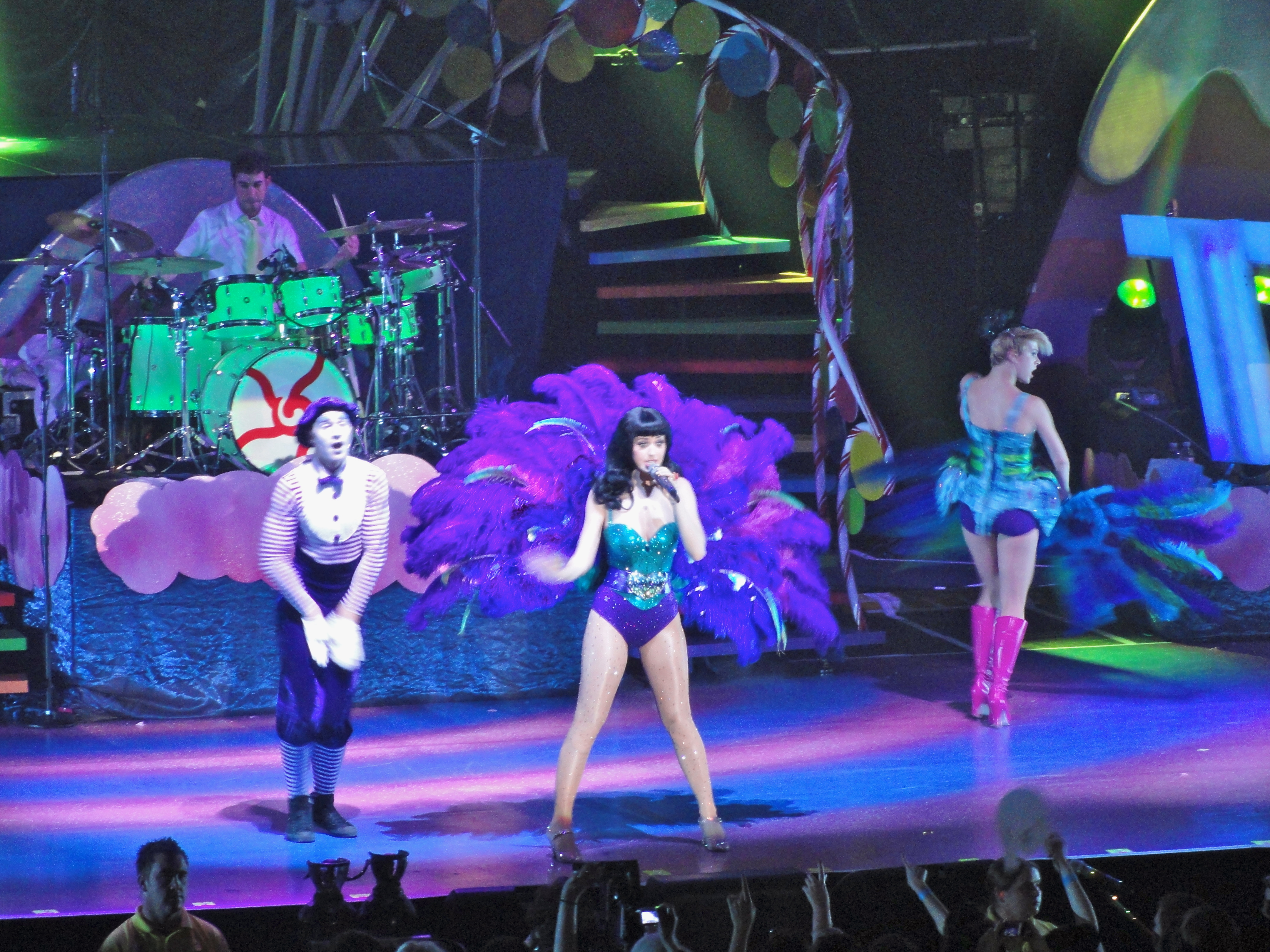 Katy Perry performing "Peacock" in California Dreams Tour. March 31st, 2011, Bournemouth, England.